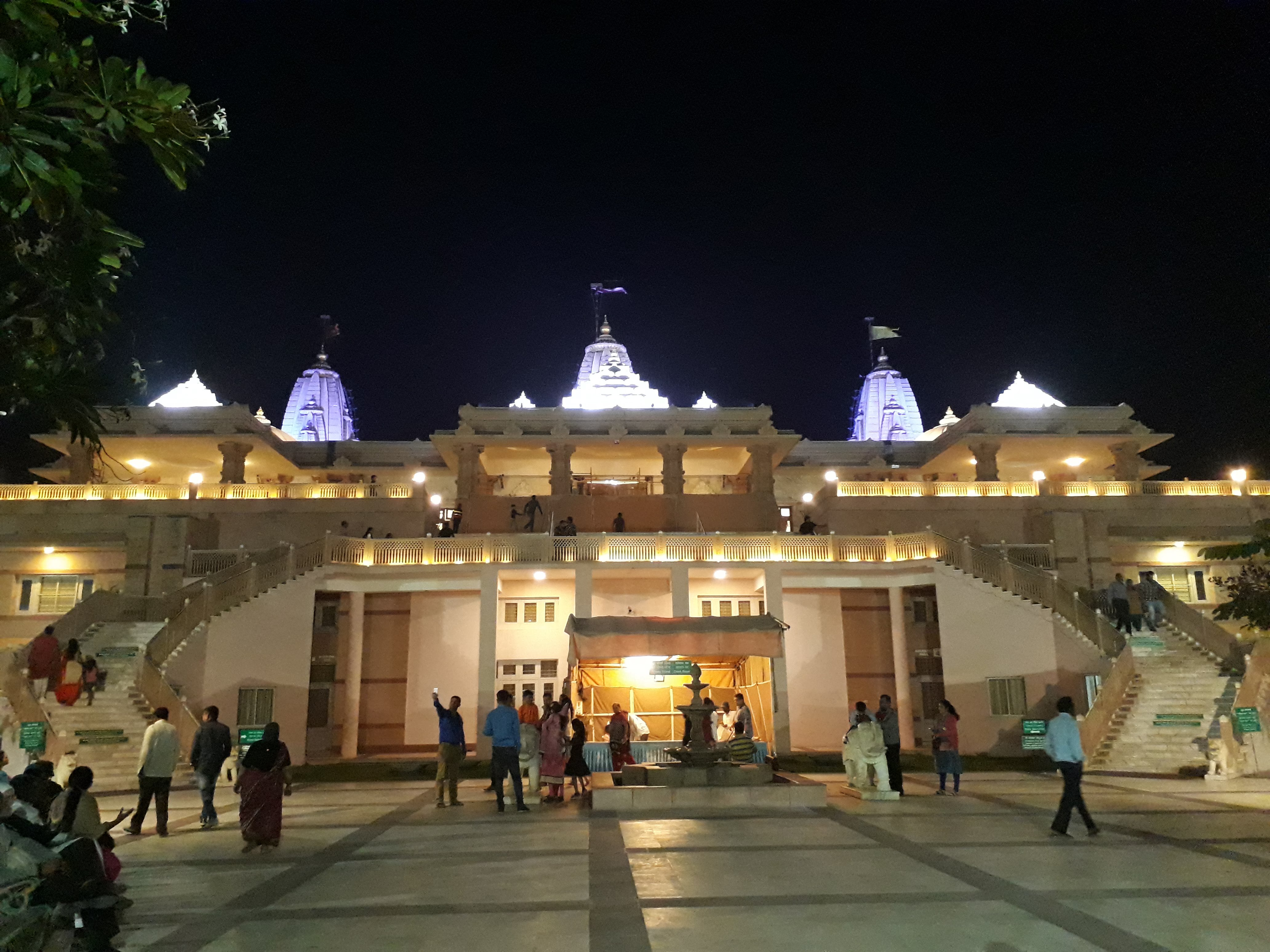 Trimurti Mandir at Ahmedabad, Gujarat any religious place.